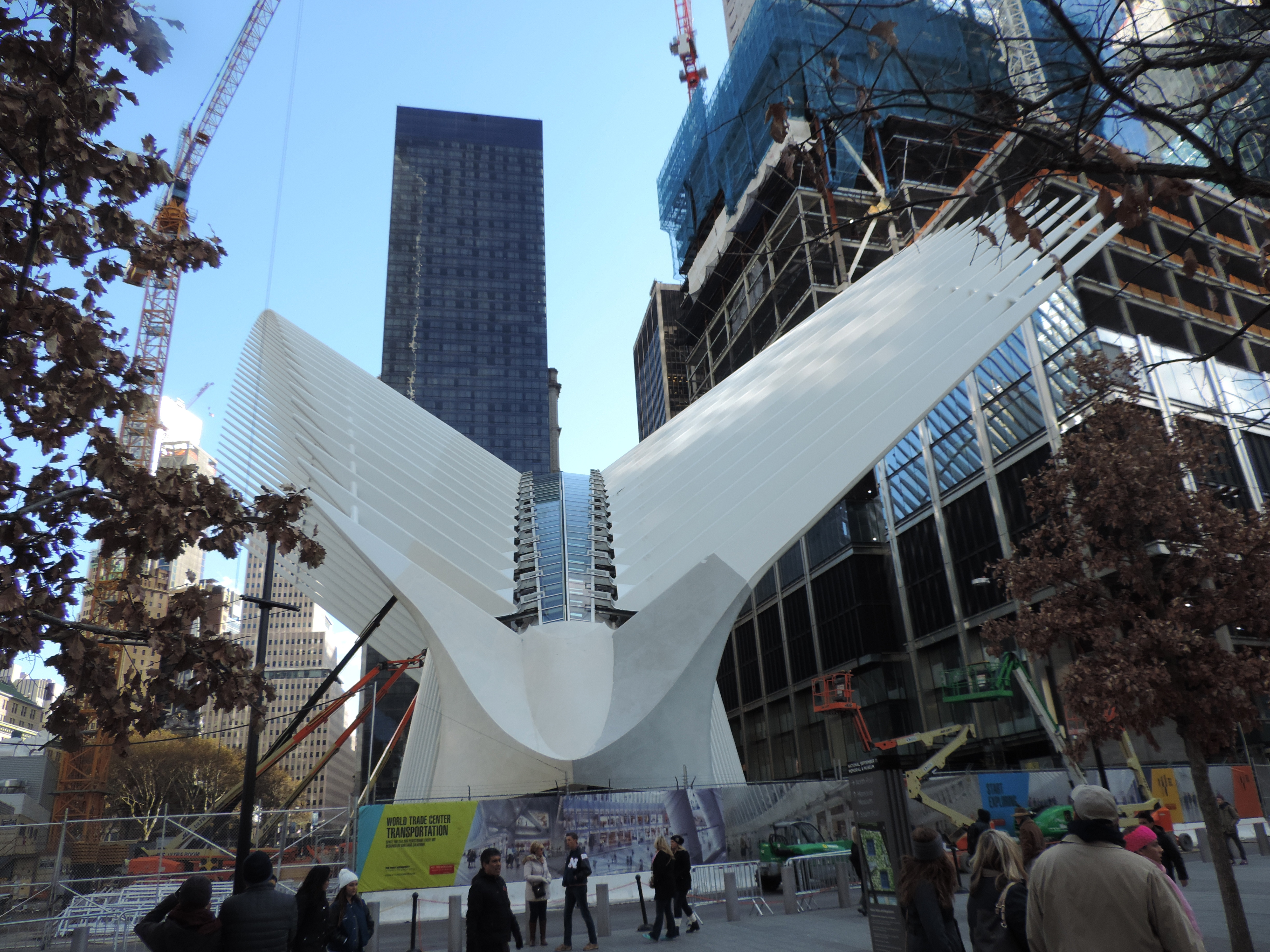 Looking east at head house under construction